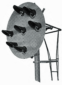 View of position light railroad signal.